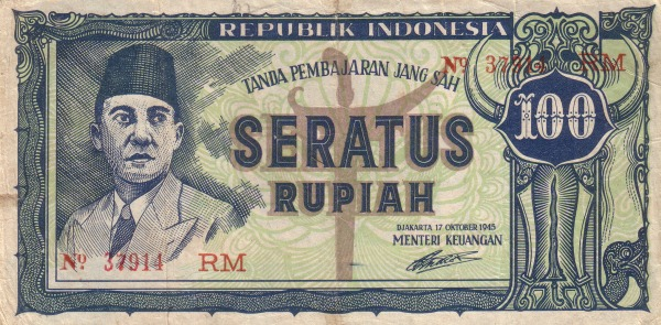 Scan of an Indonesian Rupiah banknote.